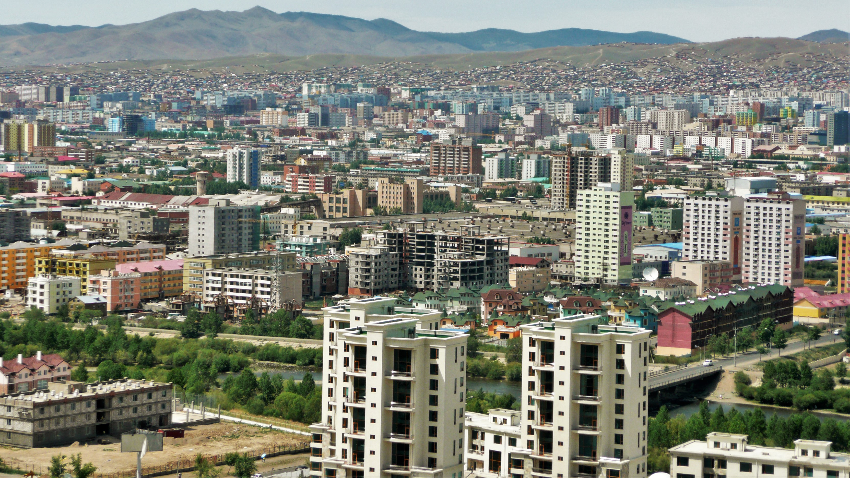 Panorama of Ulan Bator